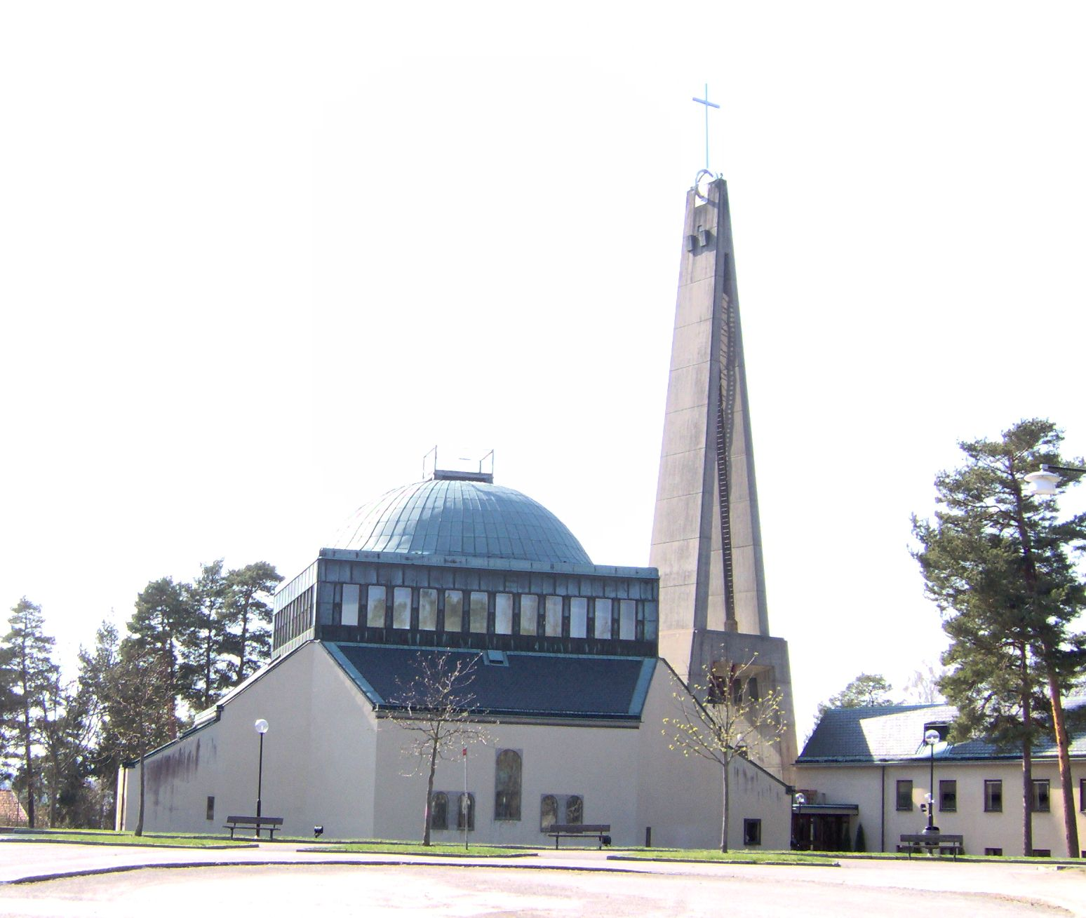 Church of Birgitta in Nockeby, Stockholm, Sweden. A few hundred yards from station Nockeby on the tramline Nockebybanan.